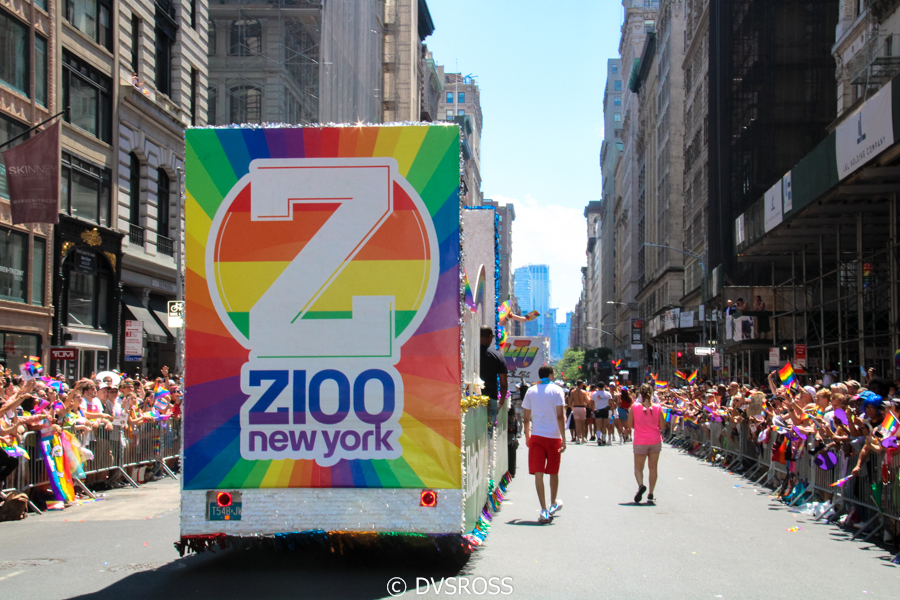 New York Pride 50 - 2019-663